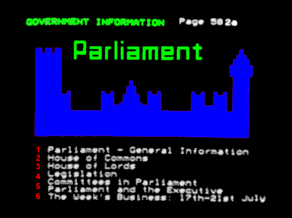 Description Page Prestel Date1981SourceOwn work by the original uploaderAuthorBernard MARTI Page Prestel